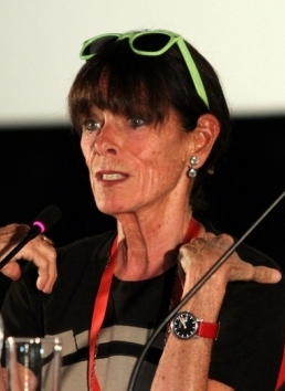 Odessa International Film Festival 2012. Geraldine Chaplin